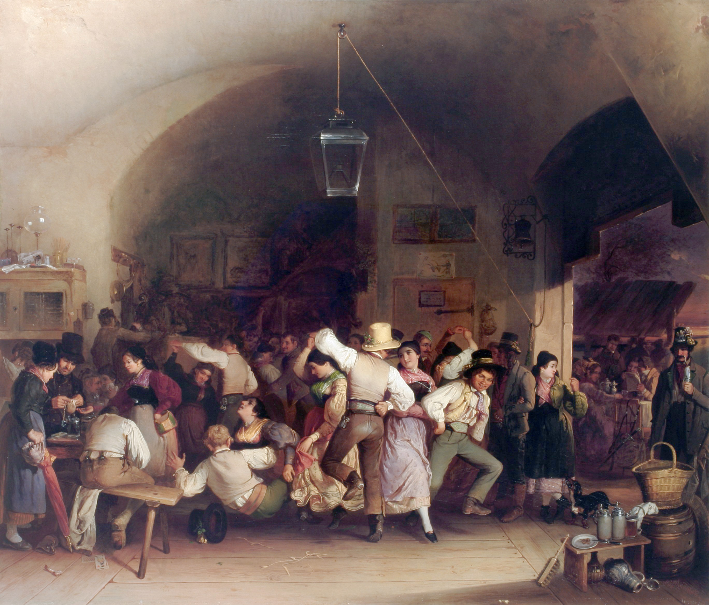 The folk-dance